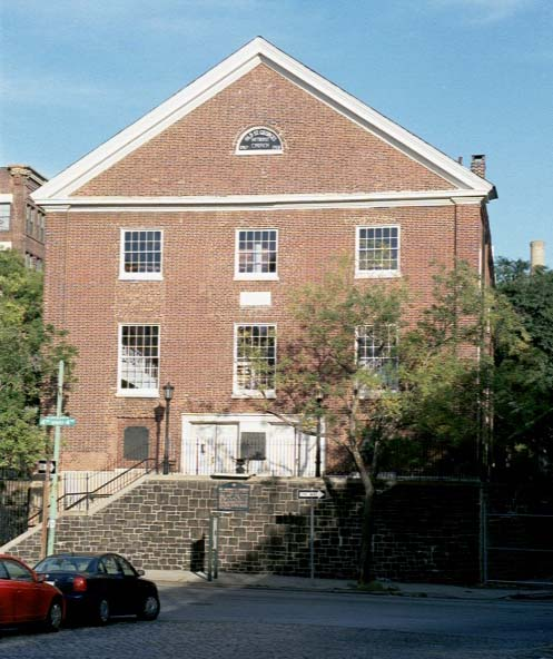 St. George's United Methodist Church in Philadelphia, PA (USA); the denomination’s oldest continuously used edifice (since 1769)